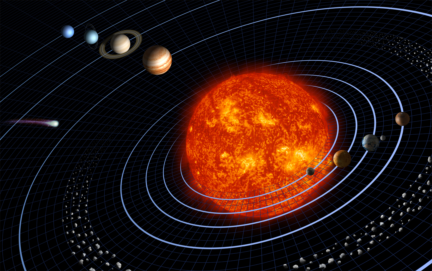 Image:Solar_sys.jpg with Pluto removed using GIMP